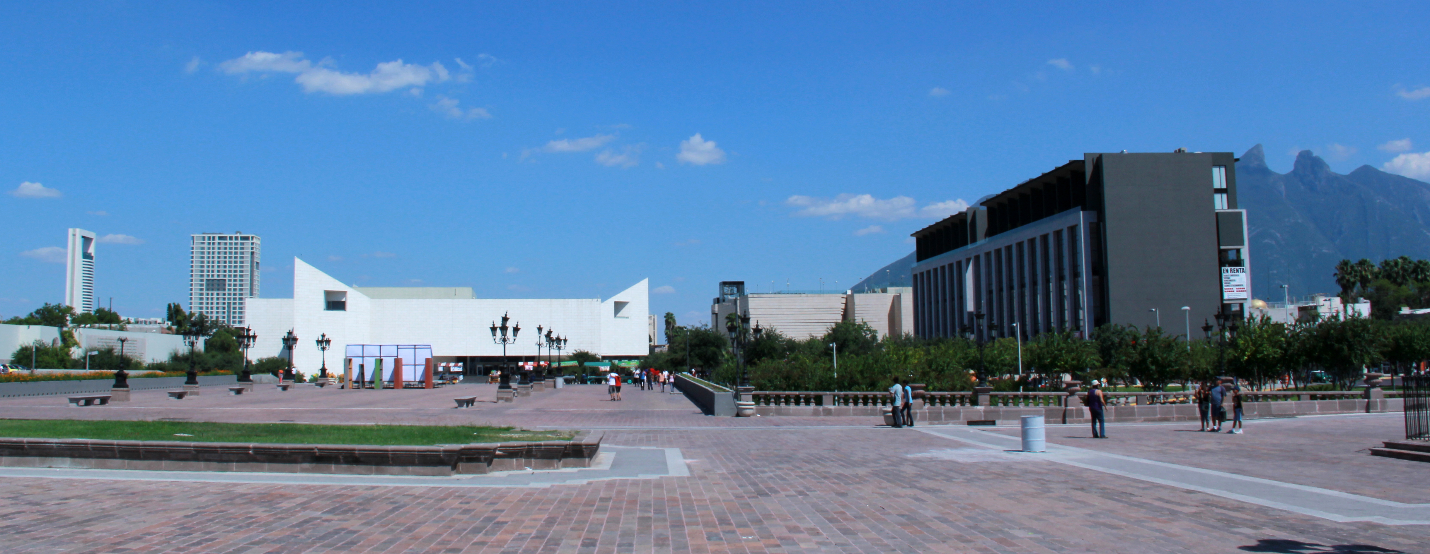 Mexican History Museum in Monterrey Mexico.